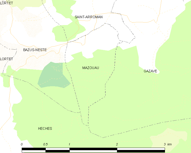 Map of French municipality